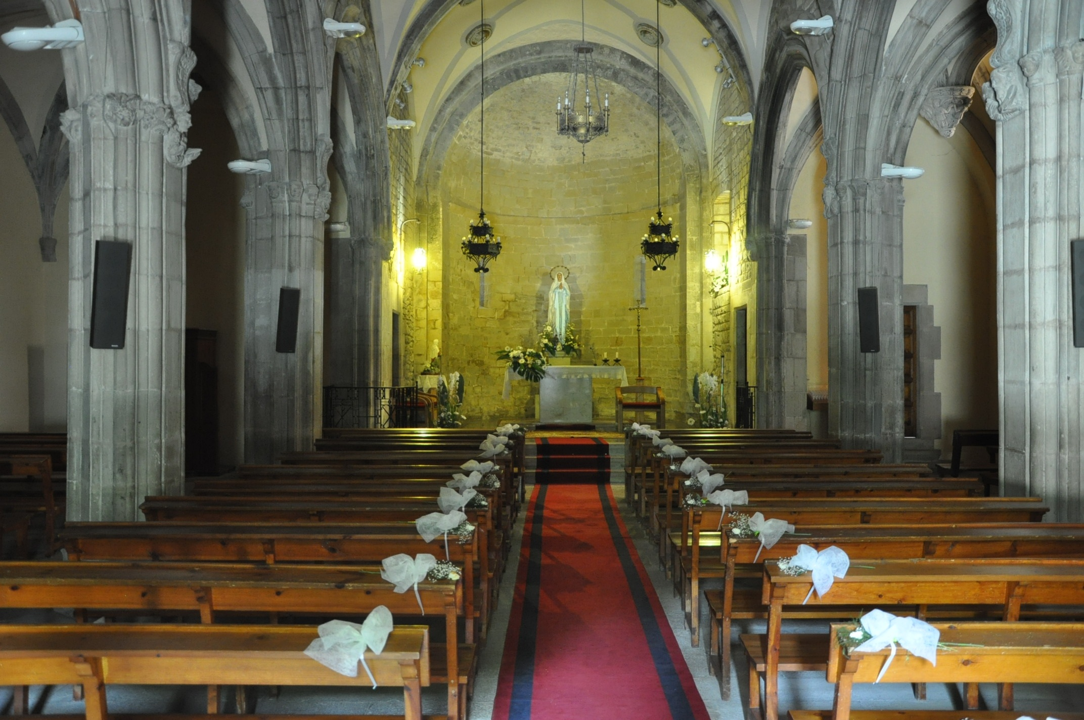 Interior of the "Mare de Déu de Lurdes" church in Tona (Catalonia, Spain). Sometimes this church is also called "Santa Maria del Barri".